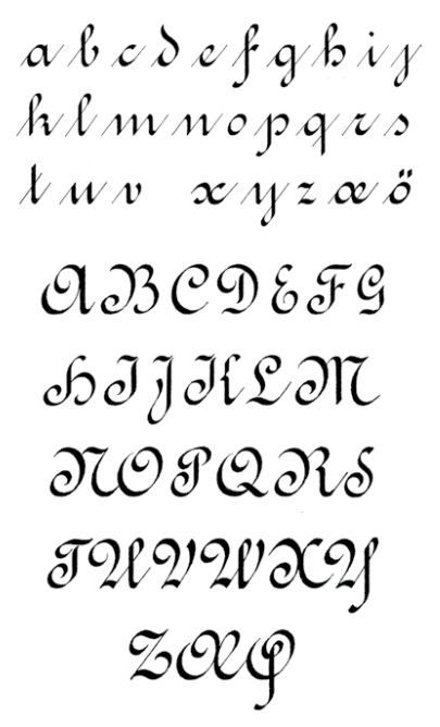 Proper Danish ronde script.